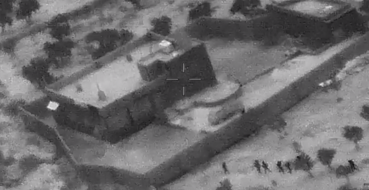 U.S. special operations forces move toward an objective in the compound occupied by Abu Bakr al-Baghdadi in Syria, Oct. 26, 2019.